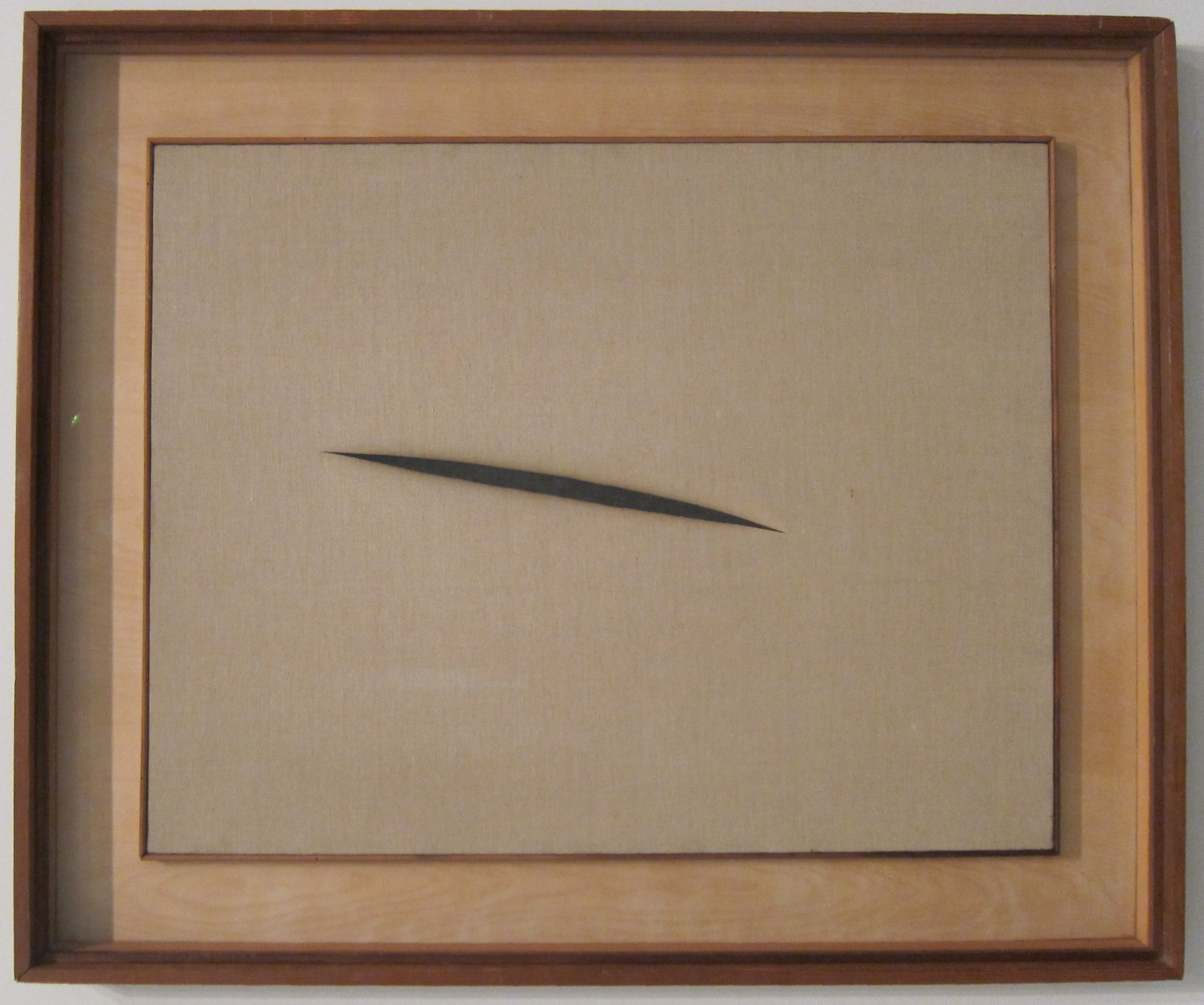 Spatial Concept “Waiting”, cut canvas by Lucio Fontana, 1960, Tate Modern